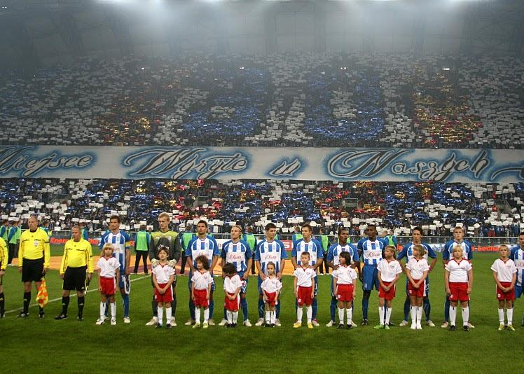 Lech Poznań team against Red Bull Salzburg.